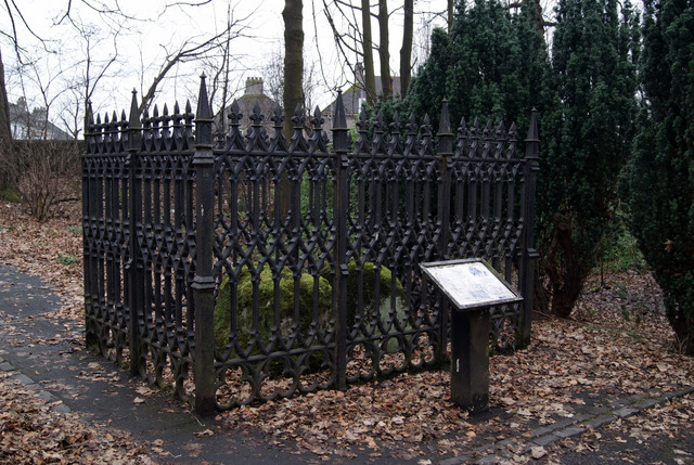 St Conval and Argyle Stones. Located between the Normandy Hotel and the "swing" bridge on the A8. See also 1705870 The following extract is from the Renfrewshire Council walking leaflet "Renfrew and its rivers". Legends of the St Conval and Argyll Stones According to tradition, one of these weighty stones floated out to sea from Ireland in the sixth century AD when St Conval was resting on it, having decided to found a new church. He and the stone floated up the Firth of Clyde and came to a stop at Renfrew. St Conval then went on to found his church just across the River Cart at Inchinnan. Such was the power of the legend that the stone became a shrine for pilgrims and sick people. Rainwater collected from the hollow on top of the stone was believed to have healing powers. More recently, but still over 300 years ago, somebody else took a rest at the stones - with even more fateful consequences. The 9th Earl of Argyll, part of the failed rebellion against the new King James VII and II in 1685, had fled and was making his way incognito to Renfrew from Inchinnan. Like St Conval a thousand years earlier, he stopped for a rest on the stone. The stone didn't float away this time. Even worse, Argyll was snatched by two militiamen, taken to Edinburgh and then beheaded at the Mercat Cross. Tradition says the stone was disfigured with the red stains of the Earl's blood for decades after...You have been warned. Don't rest here for too long!